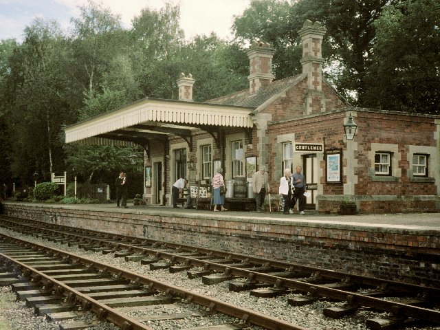 Rowden Mill Station. This station on the abandoned Bromyard to Leominster railway line has been carefully restored as a private residence and museum. It is not normally open to the public but this picture was taken on a rare open day. Even more remarkable is that the next station along the line at Fencote has had similar treatment. The rest of the railway line had long since been removed!